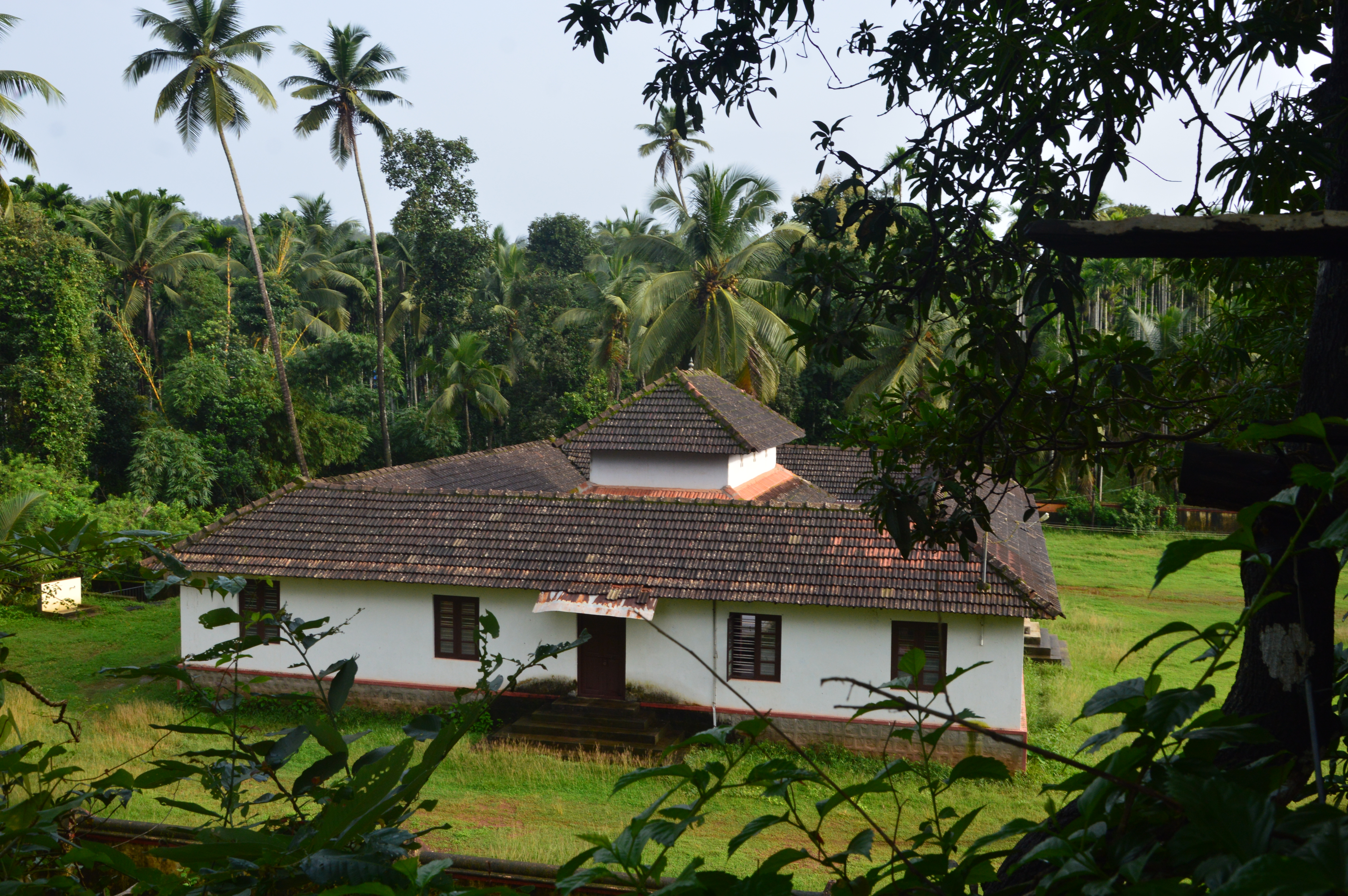 KATTATHILA MUTT